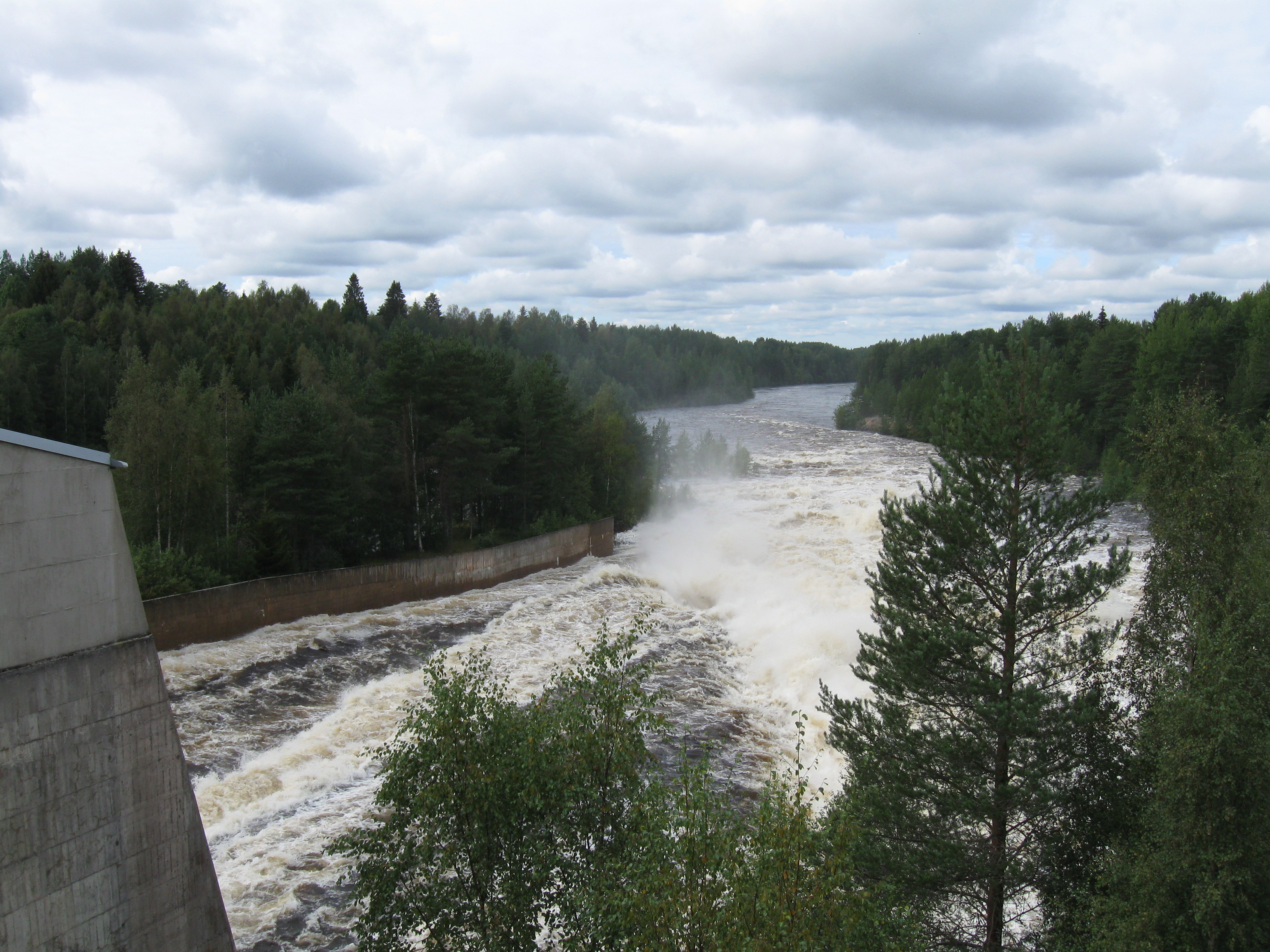 The Pälli hydroelectric power plant in the Oulujoki river, water gates open.